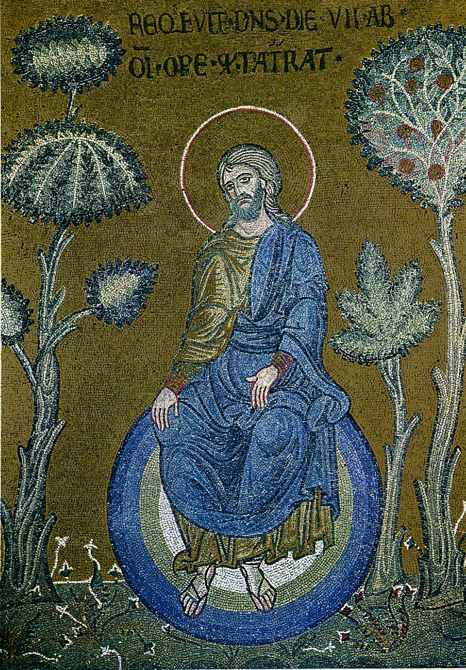 God is resting after creation. Бог отдыхает после труда сотворения. Byzantine mosaic in Monreale